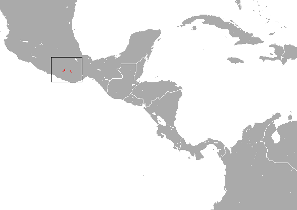 Oaxacan Broad-clawed Shrew (Cryptotis peregrina) range